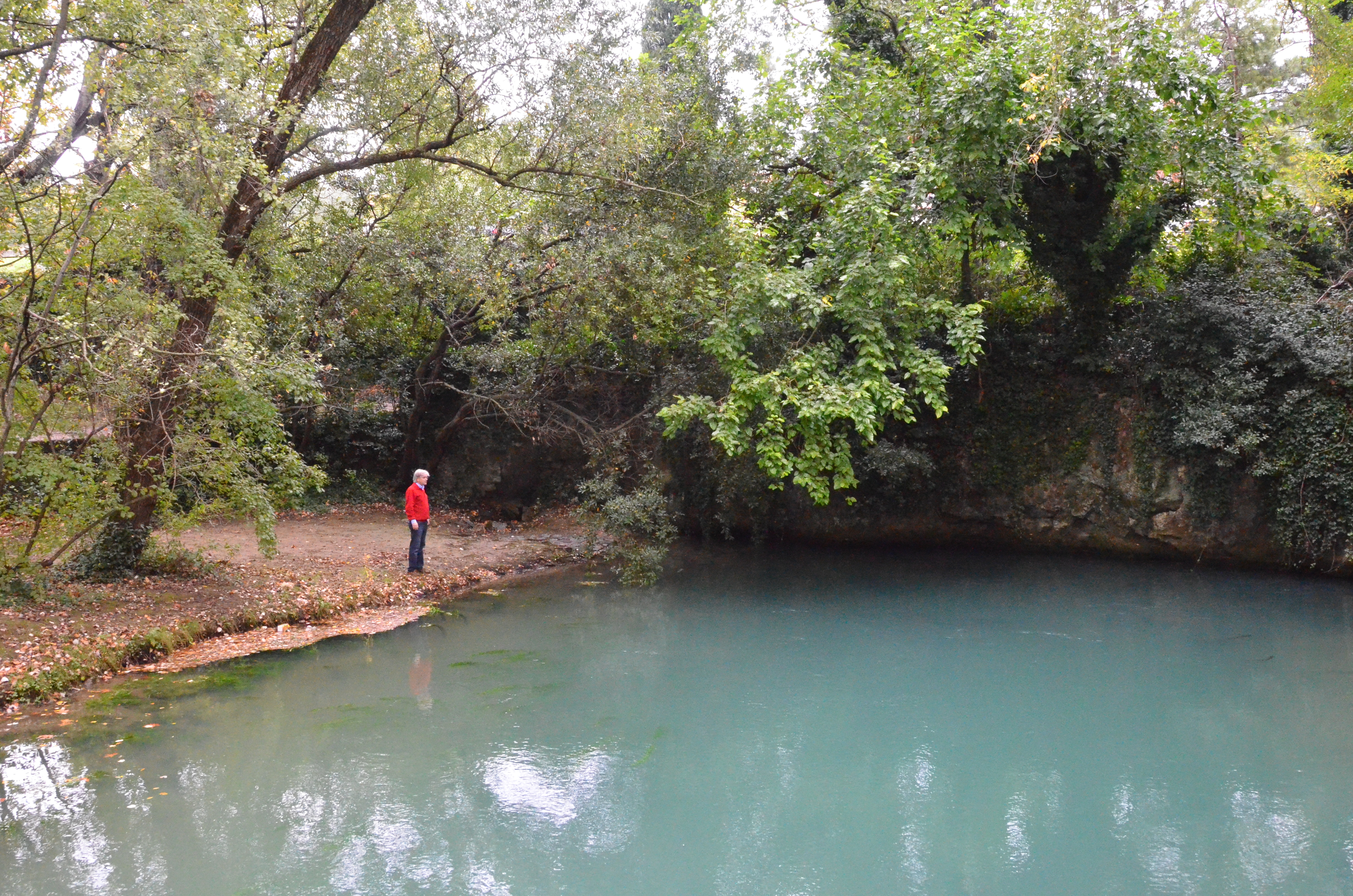 Karst spring of 2km long river Timavo (slov.: Timava) near Golfo di Panzano at San Giovanni di Duino. In Slovenia river Reka submerges in a gigantic Ponor of Škocjan Caves and emerges after ca. 38km as "Foce del Timavo". After 2km it flows into a kanal of Monfalcone harbour (region of Friuli-Venezia Giulia).